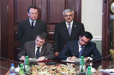 Parthership agreement between BHOS and Heriot-Watt University